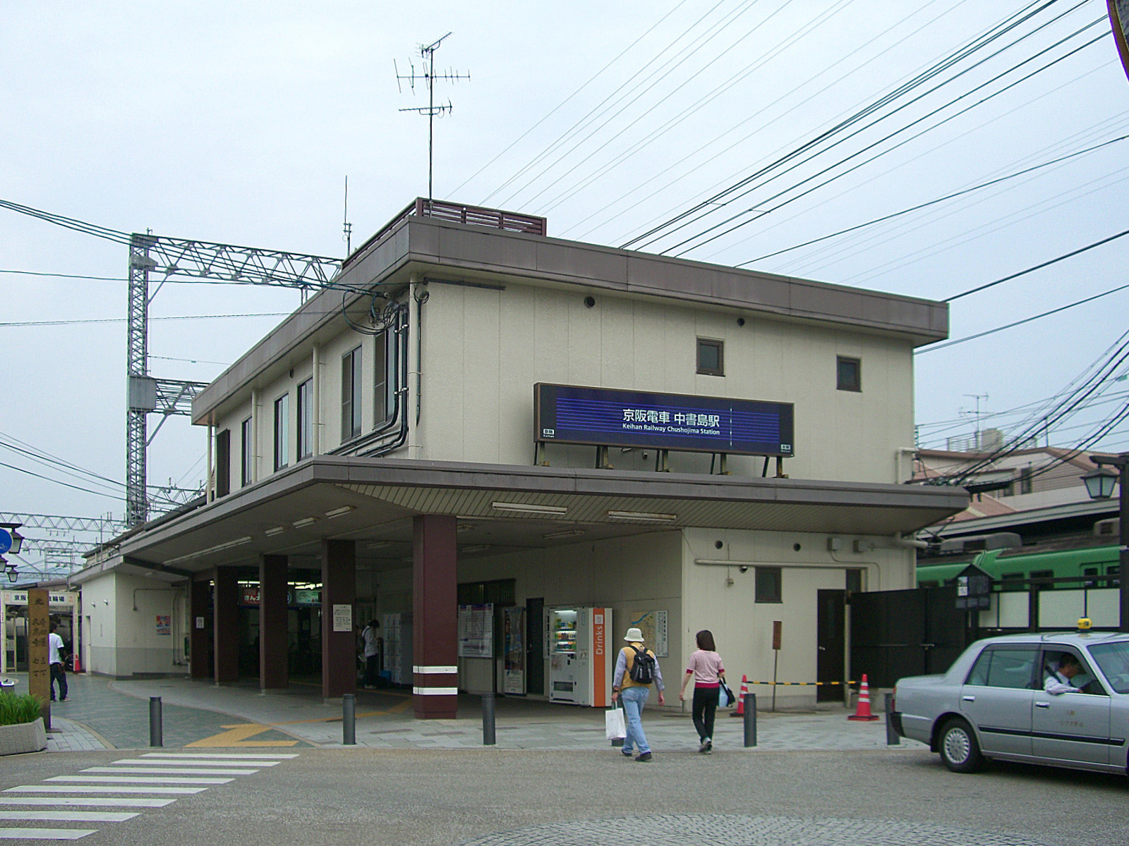 Keihan Electric Railway Keihan Main Line & Uji Line Chushojima Station North Gate